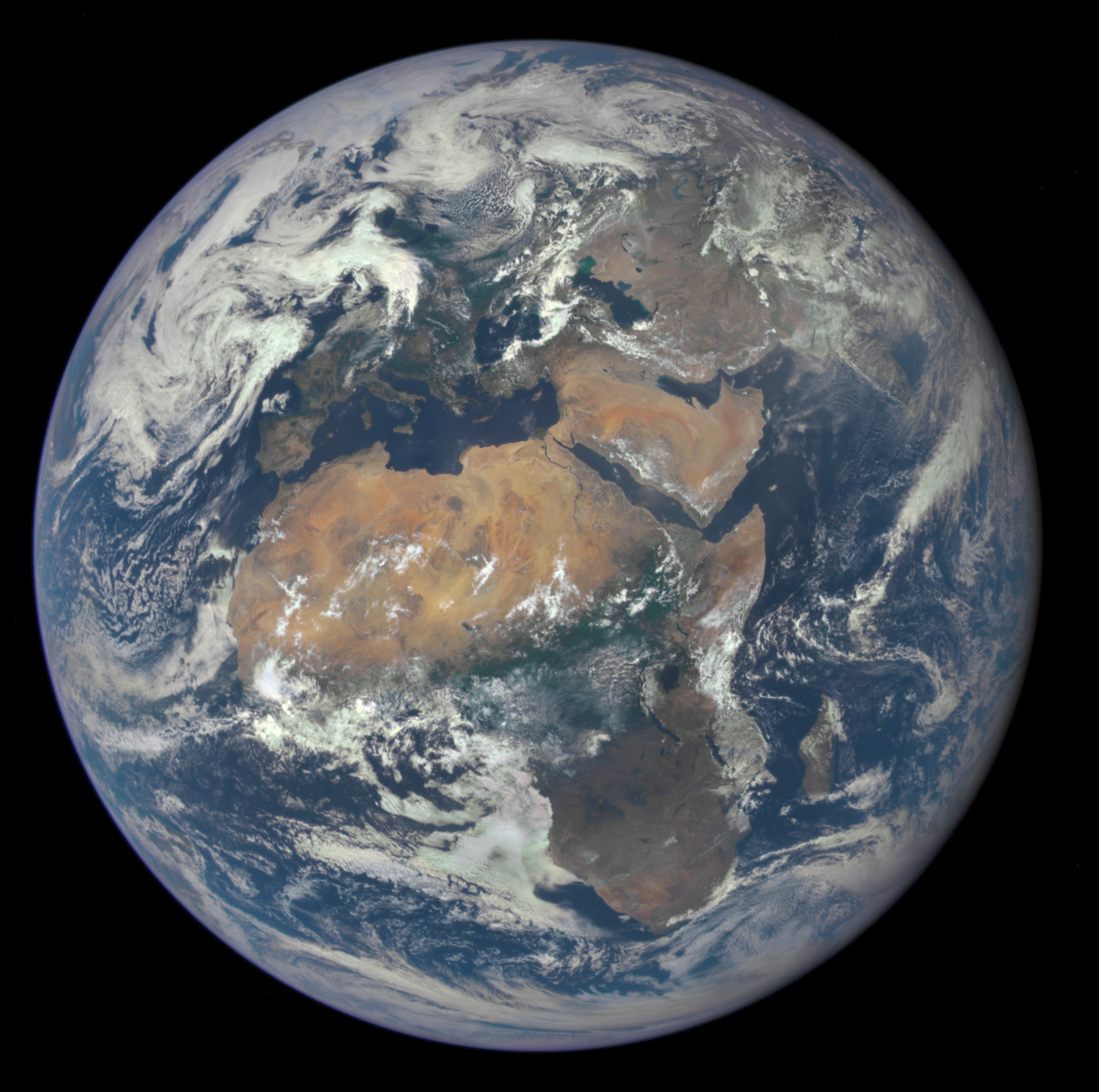 July 29, 2015 Africa and Europe from a Million Miles Away Africa is front and center in this image of Earth taken by a NASA camera on the Deep Space Climate Observatory (DSCOVR) satellite. The image, taken July 6 from a vantage point one million miles from Earth, was one of the first taken by NASA’s Earth Polychromatic Imaging Camera (EPIC). Central Europe is toward the top of the image with the Sahara Desert to the south, showing the Nile River flowing to the Mediterranean Sea through Egypt. The photographic-quality color image was generated by combining three separate images of the entire Earth taken a few minutes apart. The camera takes a series of 10 images using different narrowband filters -- from ultraviolet to near infrared -- to produce a variety of science products. The red, green and blue channel images are used in these Earth images. The DSCOVR mission is a partnership between NASA, the National Oceanic and Atmospheric Administration (NOAA) and the U.S. Air Force, with the primary objective to maintain the nation’s real-time solar wind monitoring capabilities, which are critical to the accuracy and lead time of space weather alerts and forecasts from NOAA. DSCOVR was launched in February to its planned orbit at the first Lagrange point or L1, about one million miles from Earth toward the sun. It’s from that unique vantage point that the EPIC instrument is acquiring images of the entire sunlit face of Earth. Data from EPIC will be used to measure ozone and aerosol levels in Earth’s atmosphere, cloud height, vegetation properties and a variety of other features.